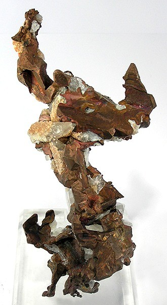 Copper, Quartz Locality: Ontonagon County, Michigan, USA (Locality at ) Size: 15.5 x 8.9 x 3.5 cm. A large, strikingly sculptural, sharply crystallized specimen of natural Michigan copper. You can still see come of the quartz crystals it intergrew with, adding to the attractiveness. There are sharp, angular faces everywhere here - and the piece has a gorgeous "antique" patina to it.